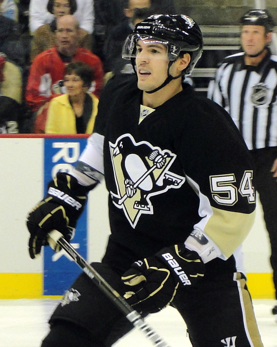 Alexandre R. Picard of the Pittsburgh Penguins in a November 11, 2011 game vs the Dallas Stars at Consol Energy Center in Pittsburgh, PA.